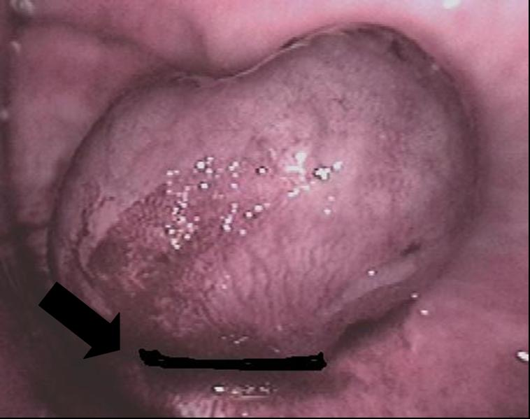 Rubber hemorrhoids band ligation